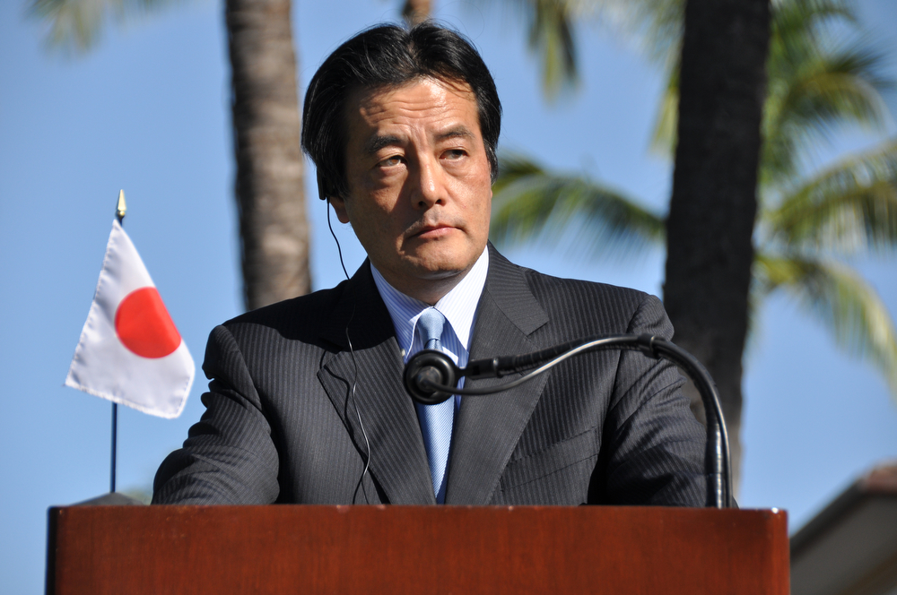 Kapolei, Hawaii - Japanese Foreign Minister Katsuya Okada listens to questions from reporters after meeting with Secretary of State Hillary Rodham Clinton where they discussed the movement of Marine Corps Futenma Air Base, the expansion of the Japan - U.S. security alliance, the war in Afghanistan and the nuclear programs in North Korea at the J. W. Marriott Ko Olina, Kapolei, Hawaii on Jan 12.